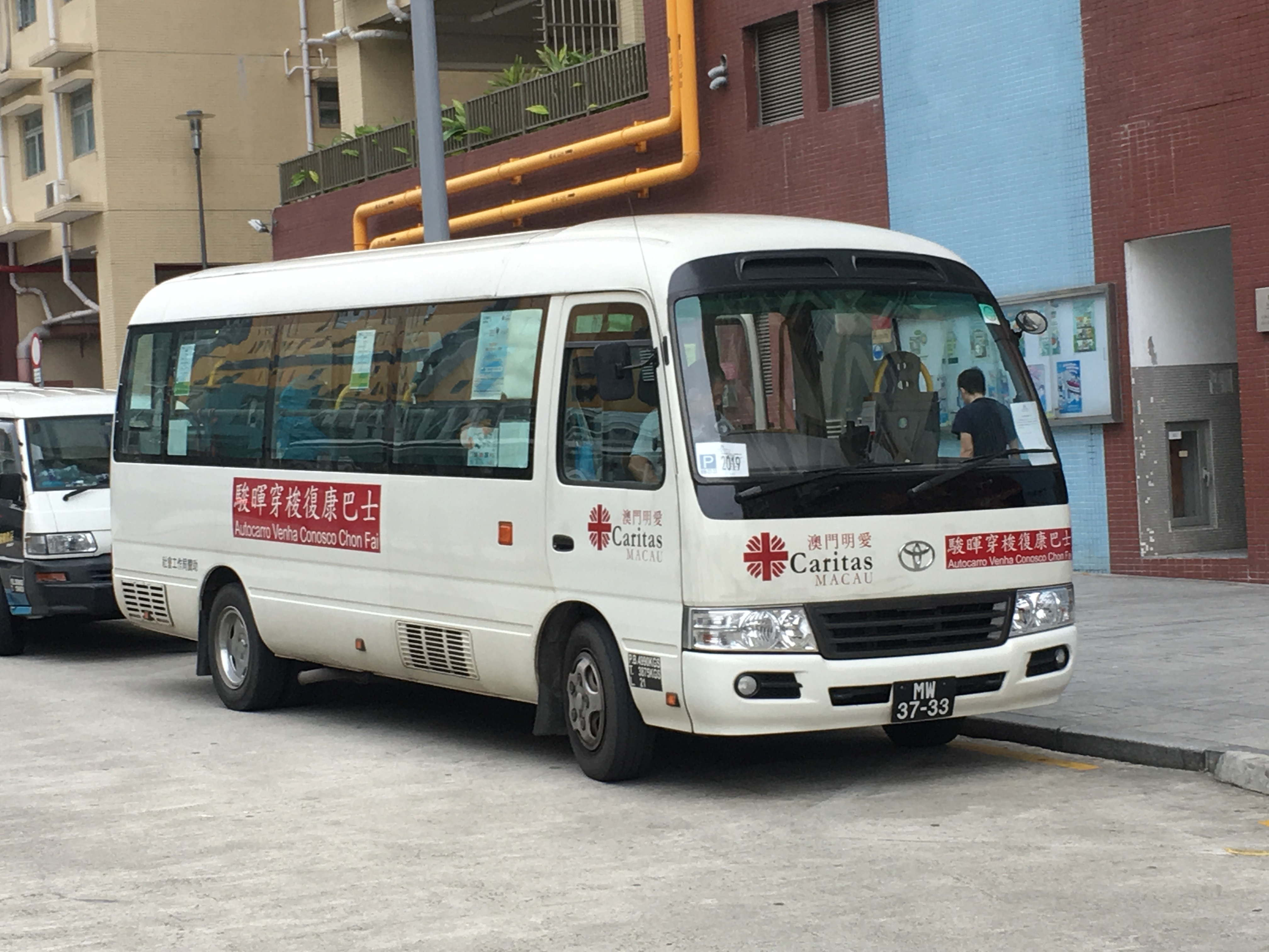 中文（香港）: This photo is taken in Shek Pai Wan.